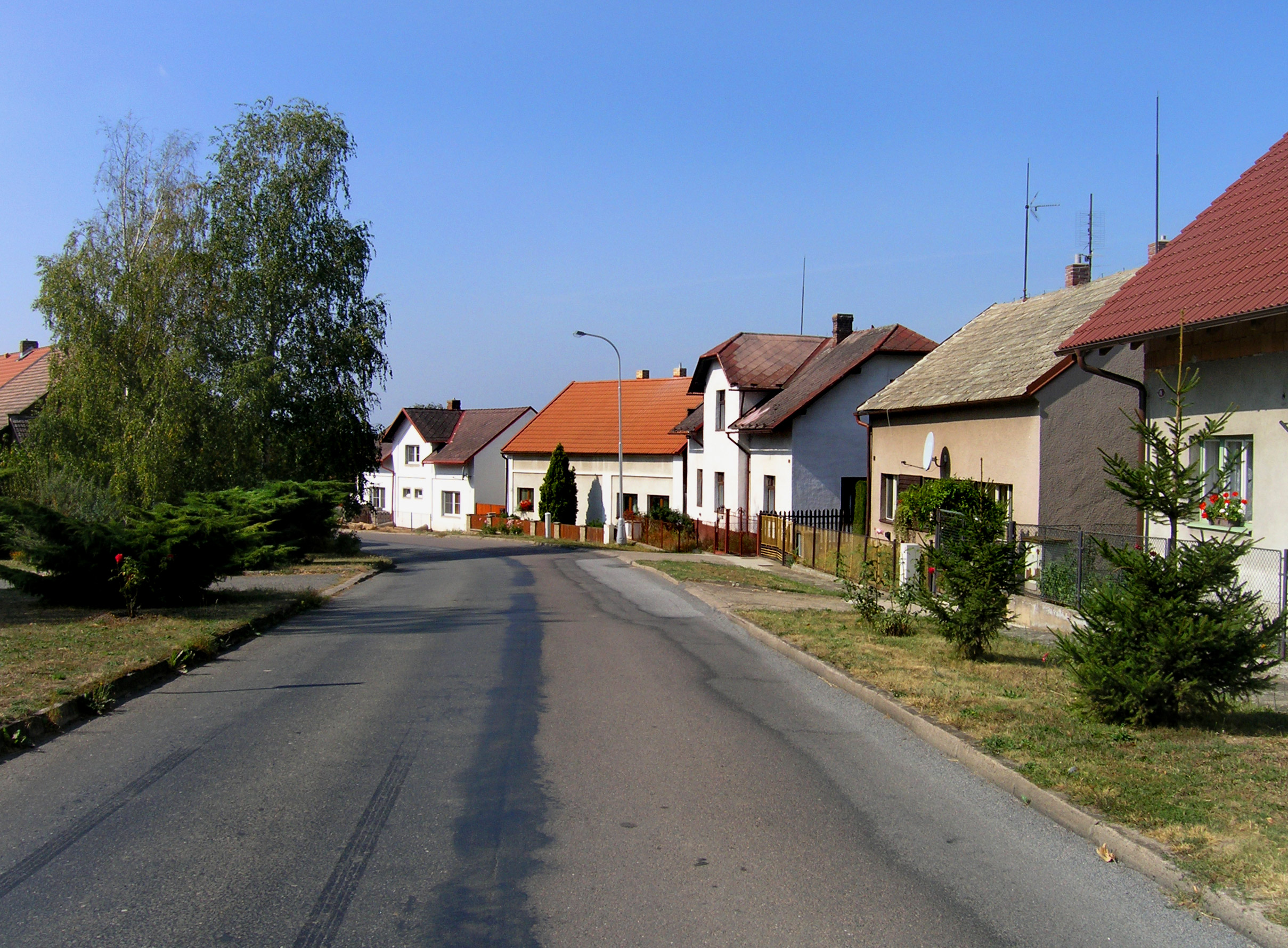 Houses in the east part of Těchlovice, Czech Republic